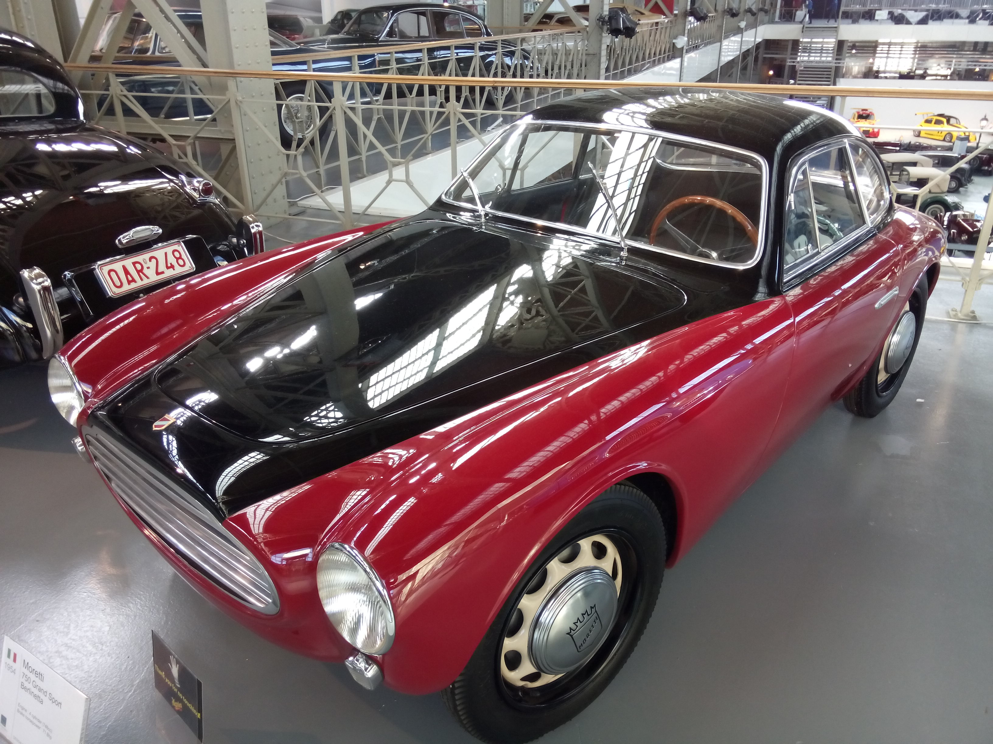 A 1954 Moretti 750 Grand Sport Berlinetta. Photo taken at Autoworld Brussels. Engine: 4 cylinder (748cc) Brake horsepower: 71 Bhp